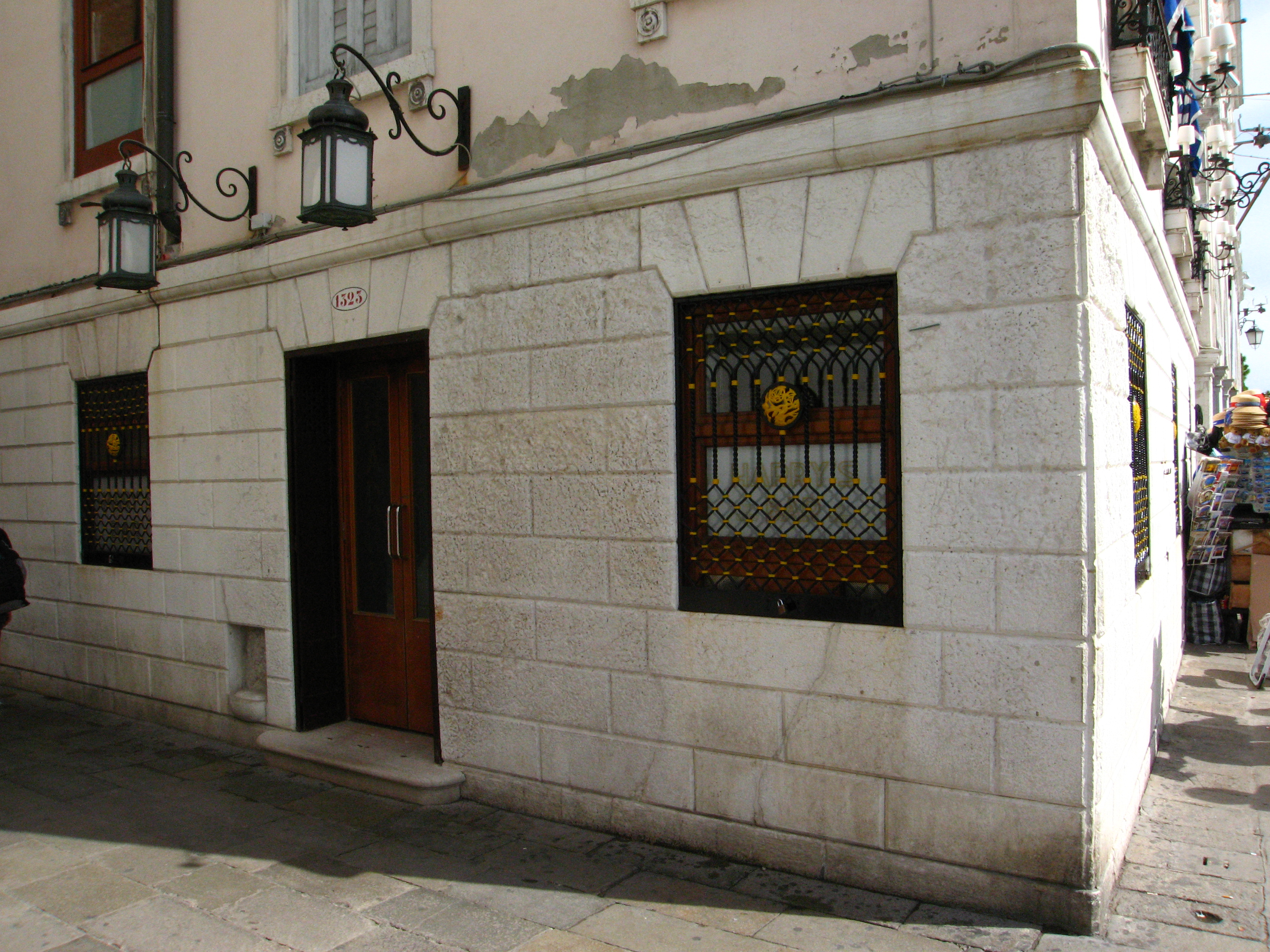 Italy - Venice, Harry's Bar, San Marco